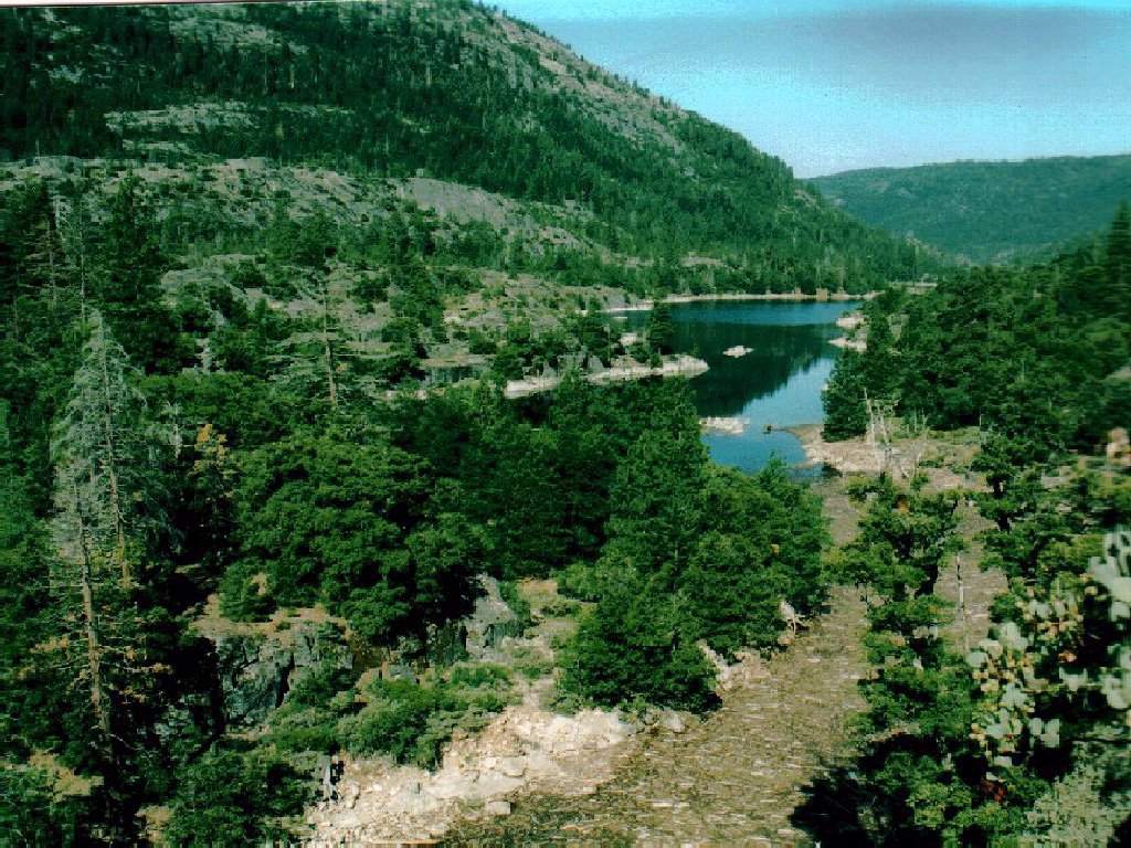 Logjammed Five Lakes Creek as it enters Hell Hole Reservoir